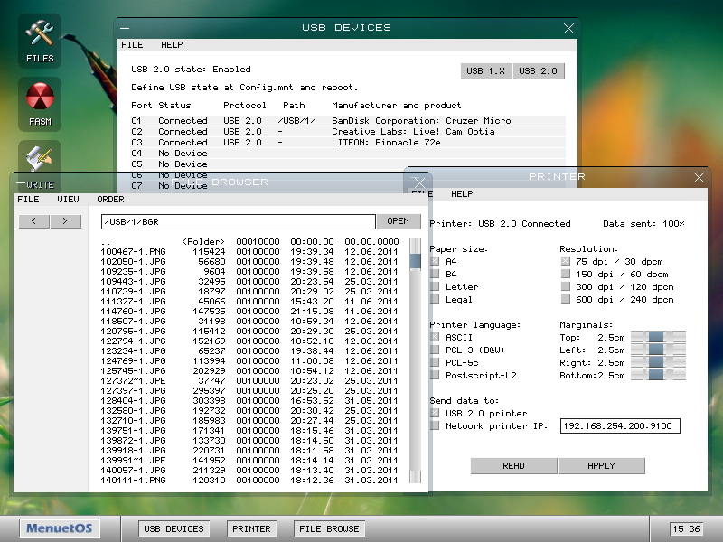 Menuet screenshot